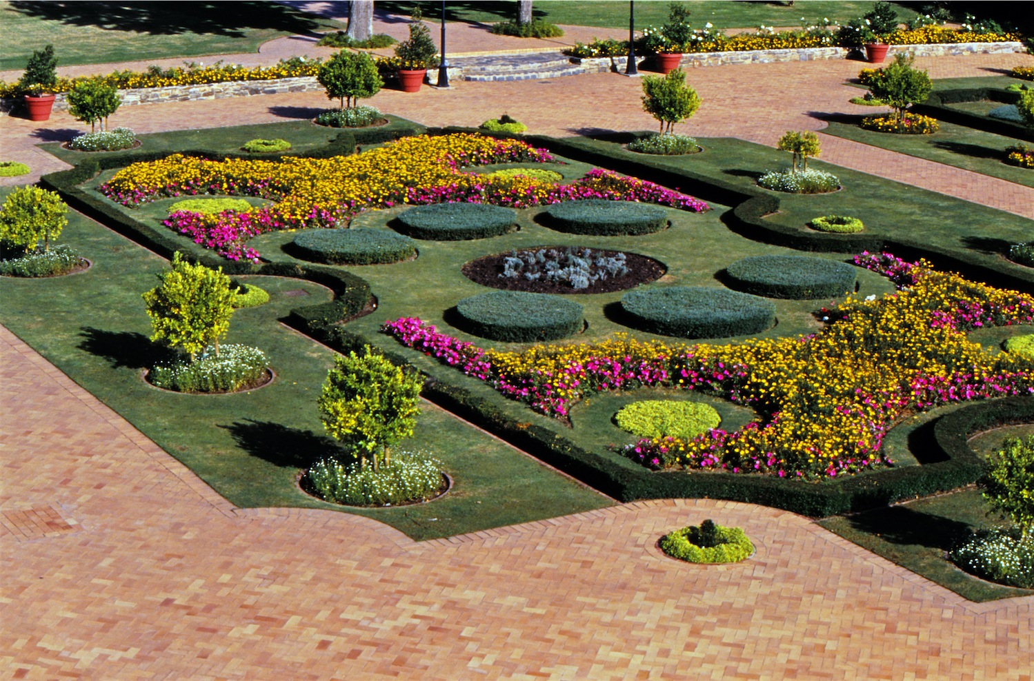 This media shows a South African Protected Site with SAHRA file reference 9/2/018/0235.